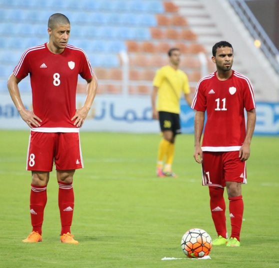 Rafael da Silva Nascimento in a match against Fanja Club of Oman. 13 January 2016 Al-Seeb Stadium, Al-Seeb, Oman Photographer email id